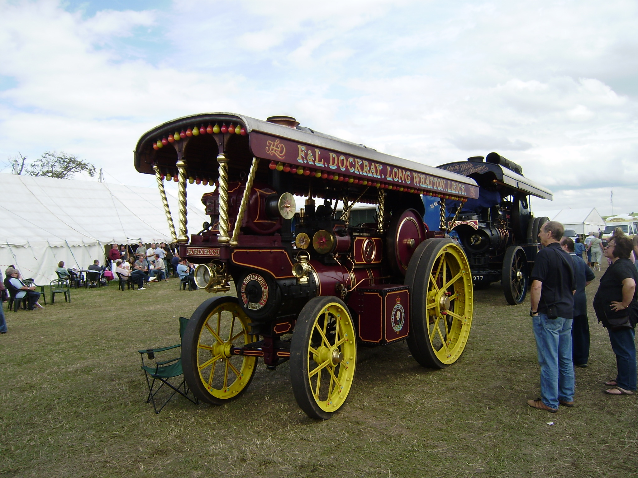 William Foster & Co. Showmans engine "Robin Hood" s/n 14431 at Cromford steam fair 2008